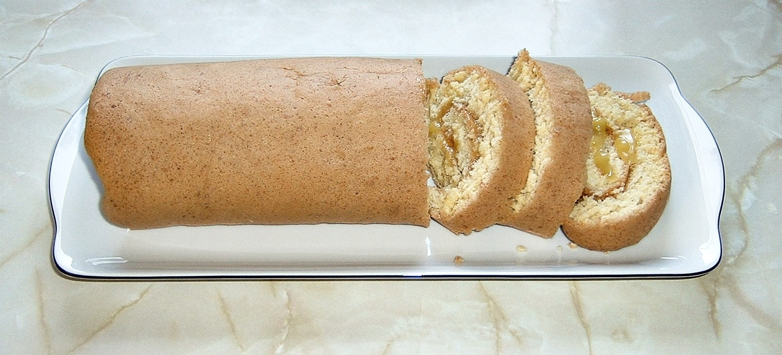 Made and photographed by Musical Linguist on 25 June 2006.